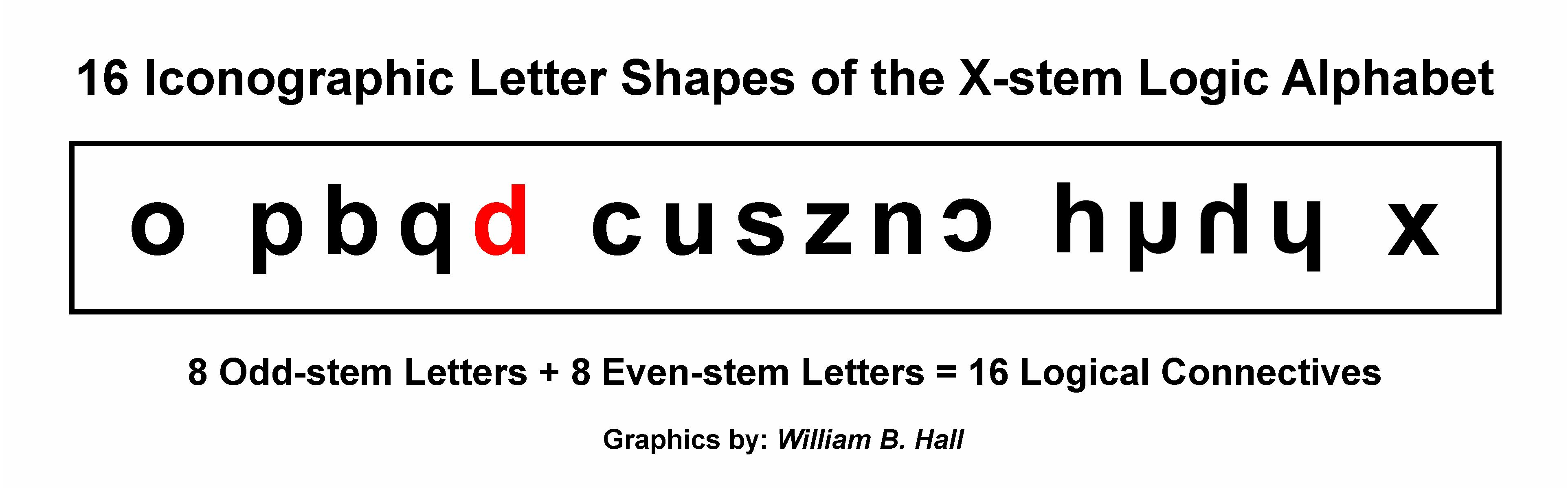 X-stem Logic Alphabet on a linear 1-dimensional flip stick showing Pascal's Triangle 5th row division of 1, 4, 6, 4, 1. The symmetry properties of the letter-shape symbols also break down into 8 even-stem letter shapes and 8 odd-stem letter shapes.